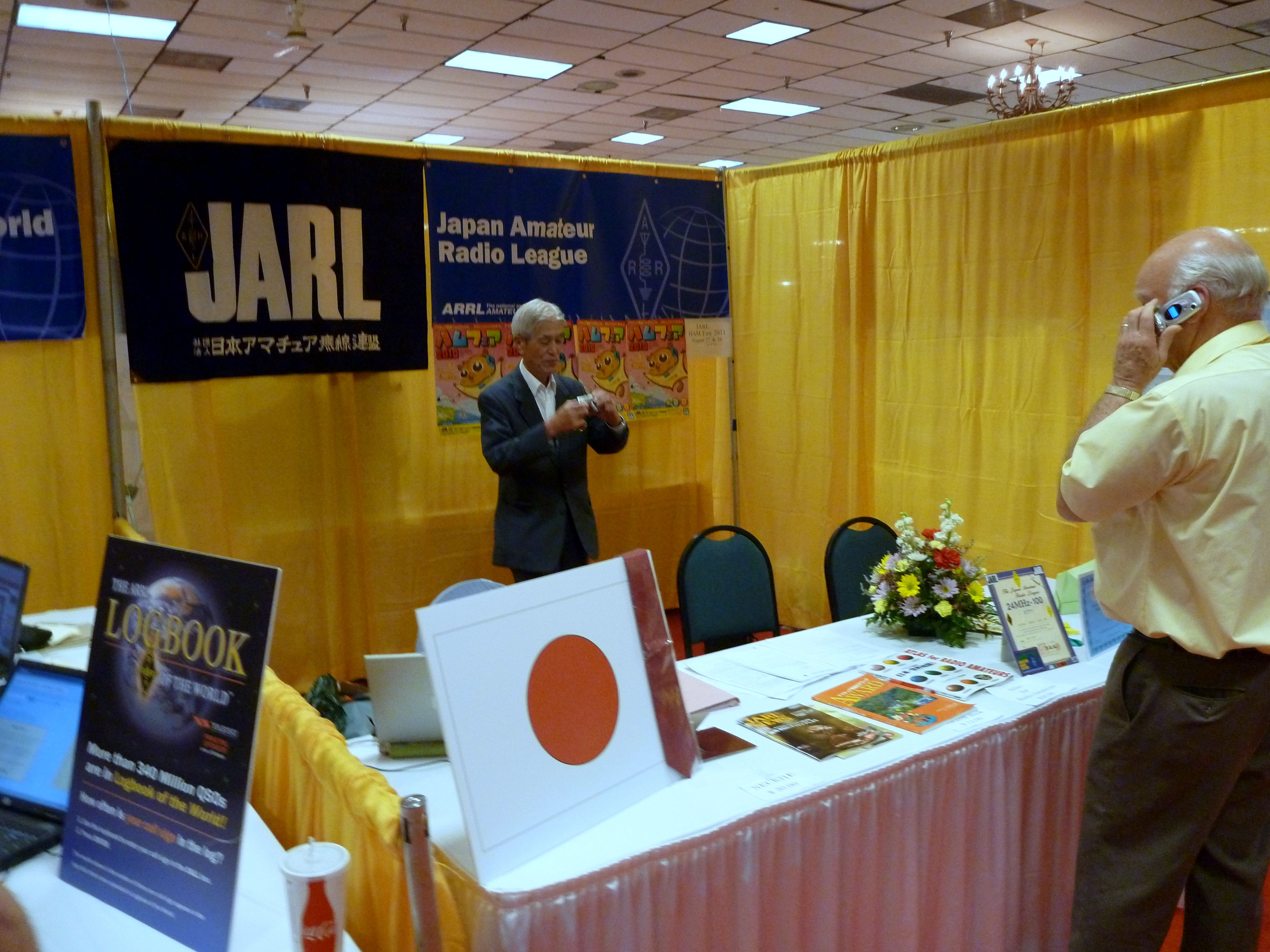 The Japan Amateur Radio League's booth at the Dayton Hamvention 2011.